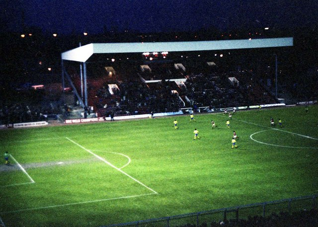 The Main Stand at Charlton from the top of the terrace